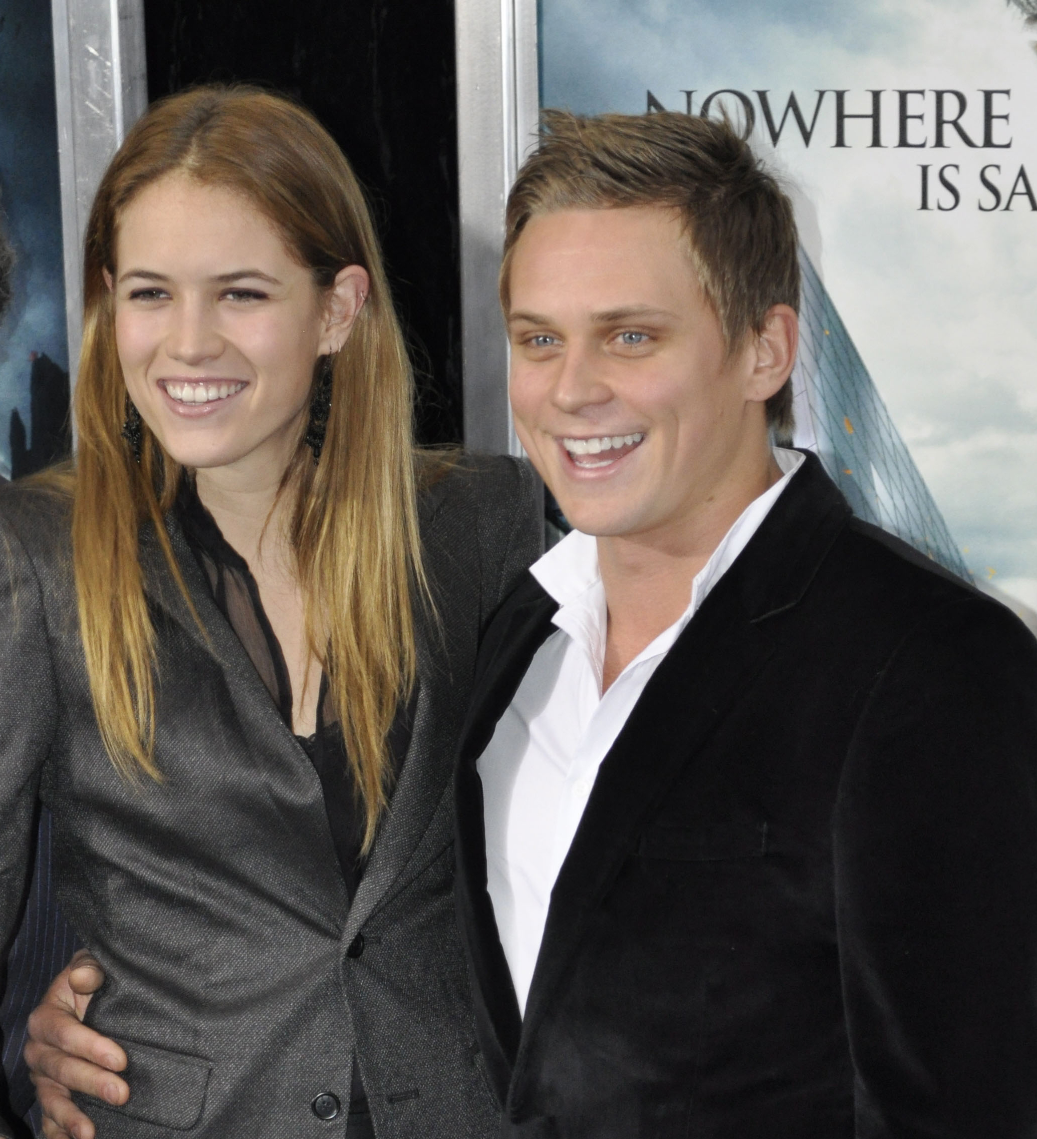 Cody Horn and Billy Magnussen at the film premiere of Harry Potter and The Deathly Hallows in Alice Tully Center, New York City in November 2010.